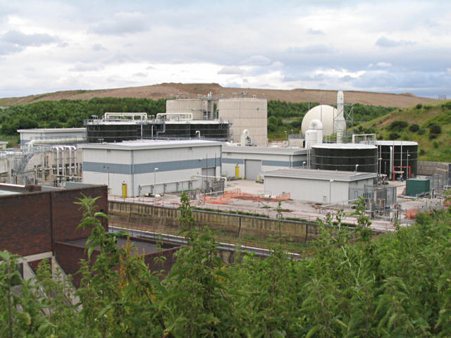 Wastewater Plant, New Ferry